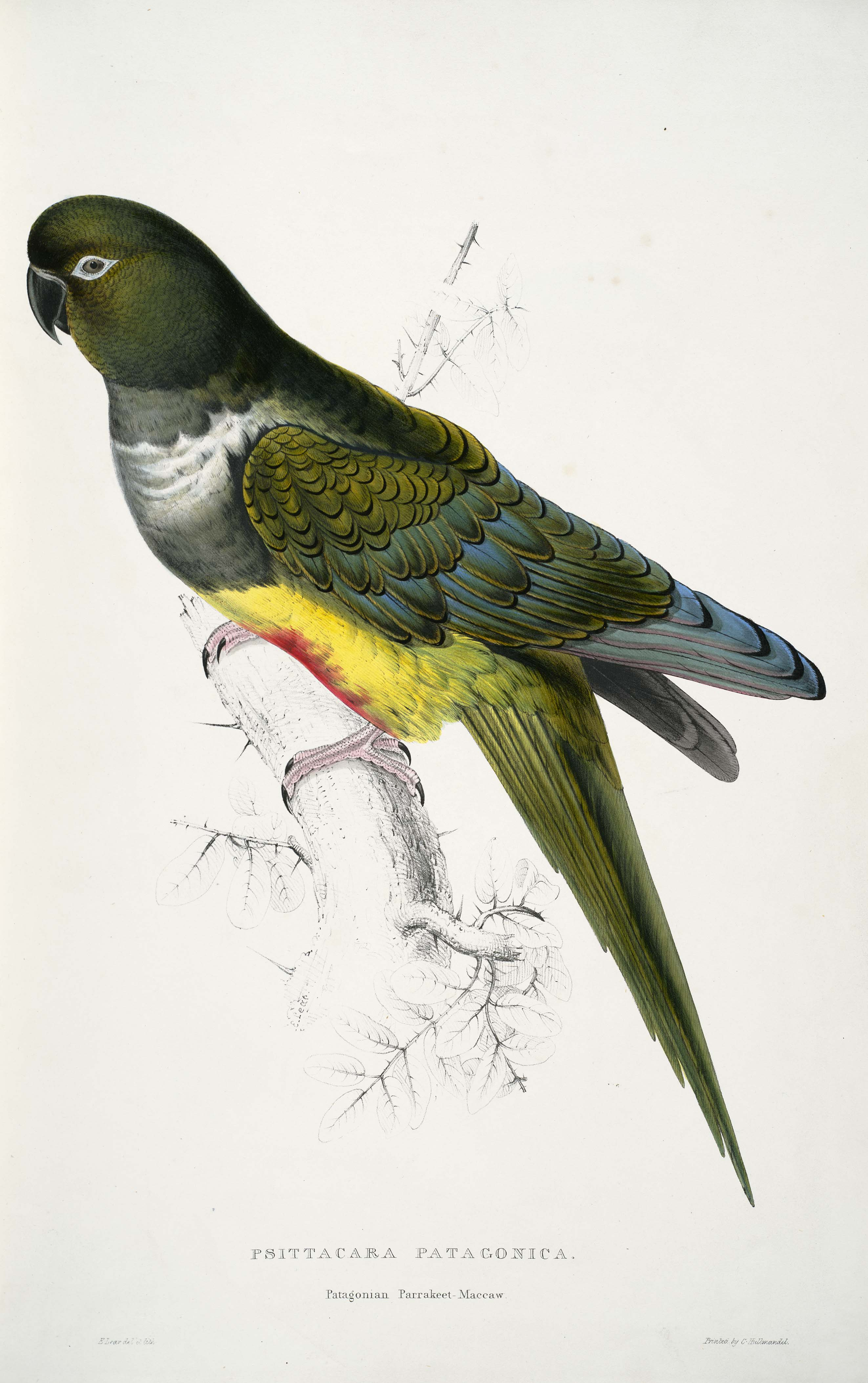 A painting of a Burrowing Parrot, also known as Patagonian Conure, (originally captioned "Psittacara patagonica. Patagonian Parrakeet-Maccaw") by Edward Lear 1812-1888.